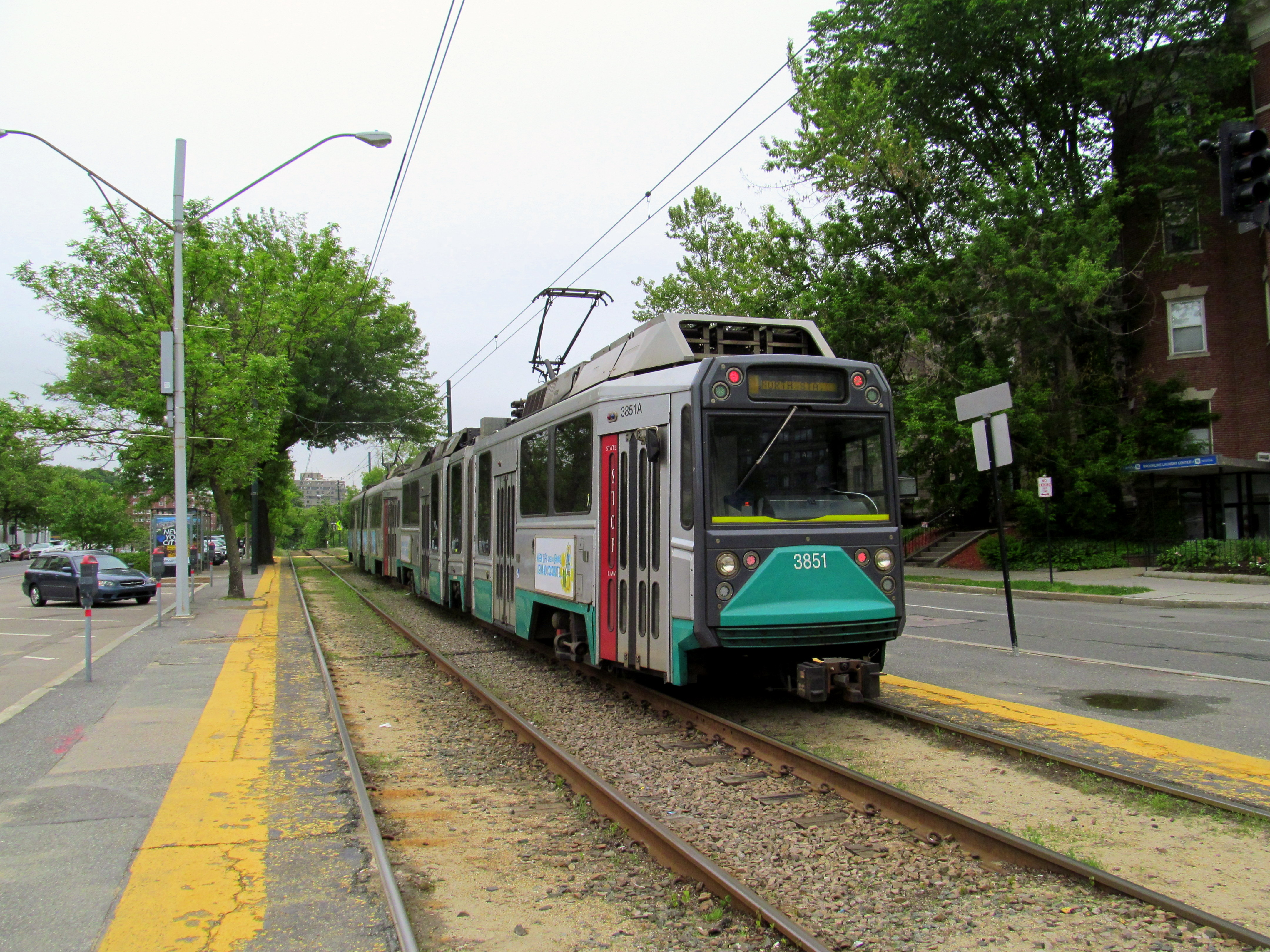 An inbound train at Tappan Street station in June 2014